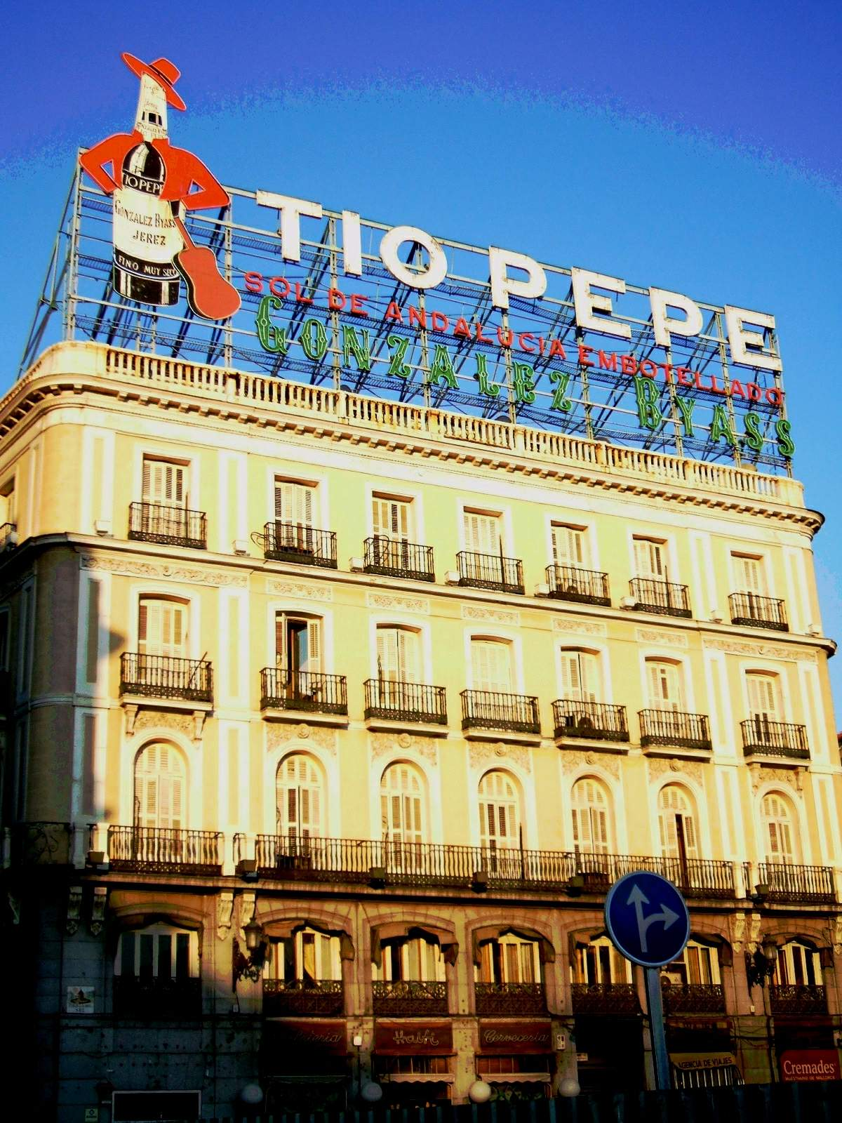 Edificio "Tío Pepe", Madrid, España